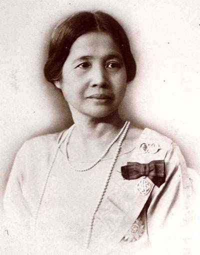 HRH Princess Abha Barni, Mother of Queen Rambhai Barni of Siam